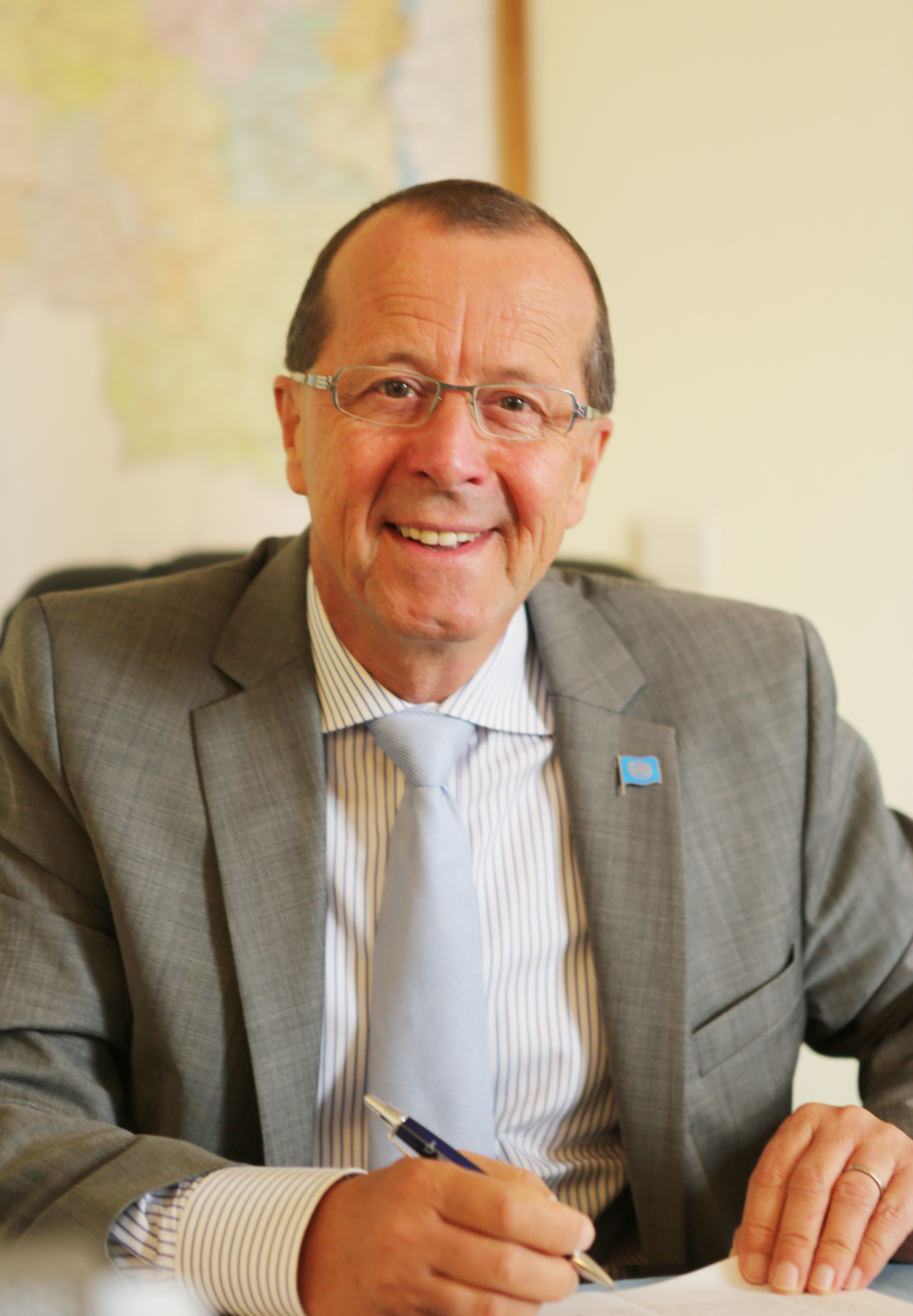 DRC. Kinshasa. MONUSCO HQ. 13th of august 2013. Arrival of the new MONUSCO SRSG Martin Kobler.